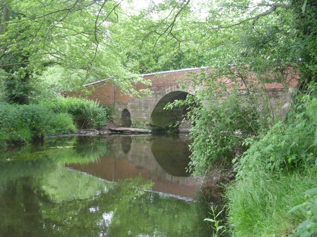 A bridge over the River Meese